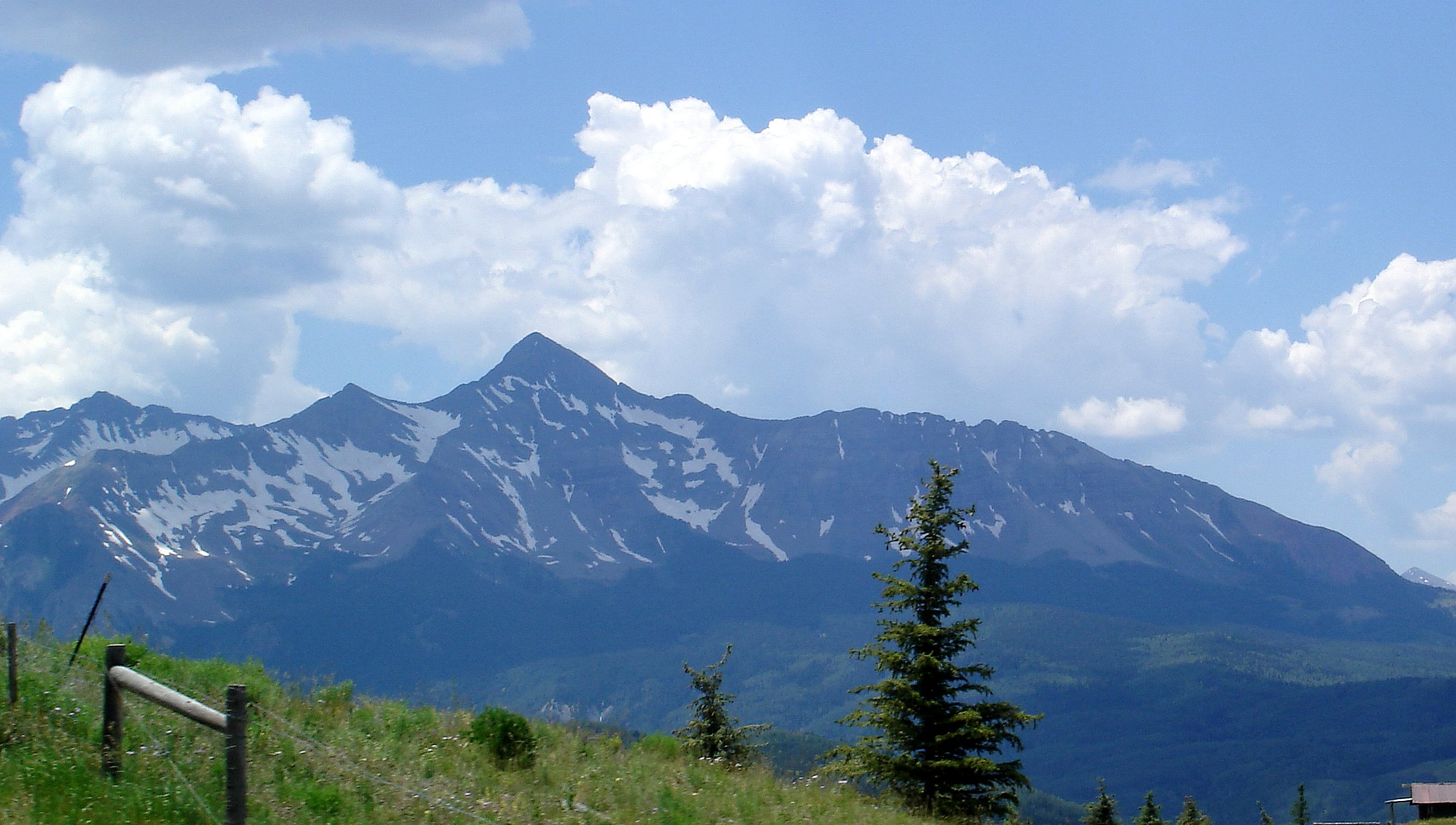 Mt Wilson viewed Leaving Telluride, Colorado.